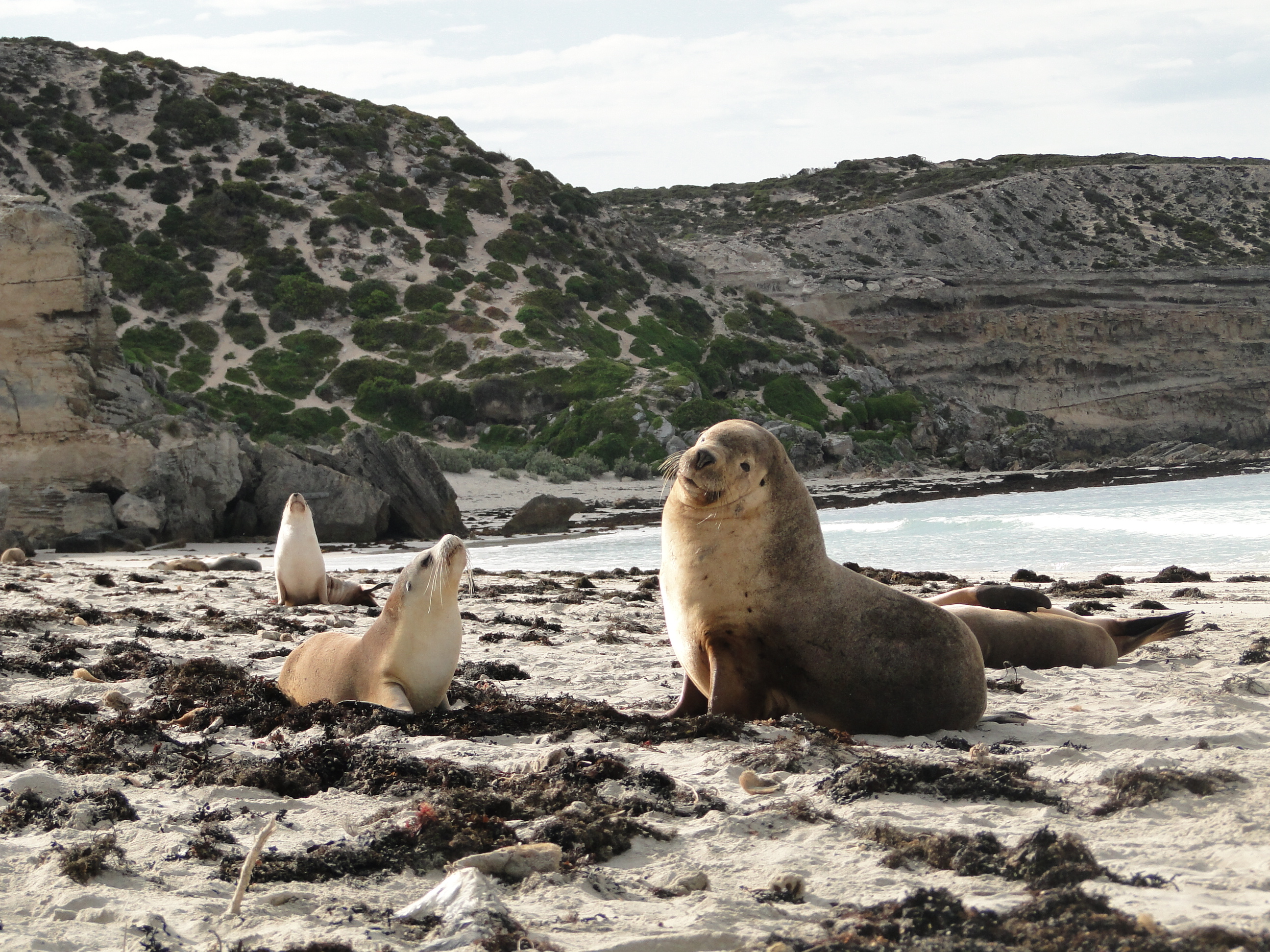 Australian sea lions on the beach at the Seal Bay Conservation Park on Kangaroo Island, South Australia